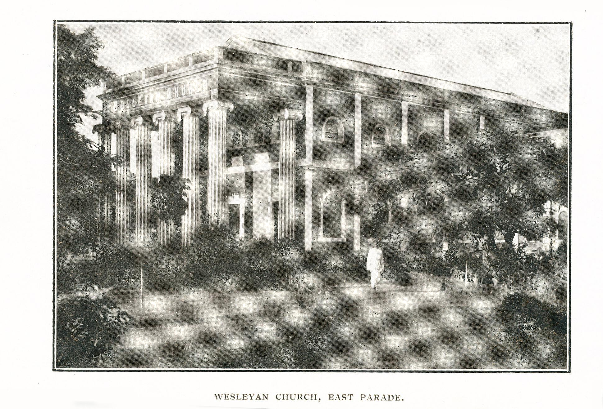 Wesleyan Church. East Parade, by CH Doveton, Picturesque Bangalore (The Times Press, Bombay).